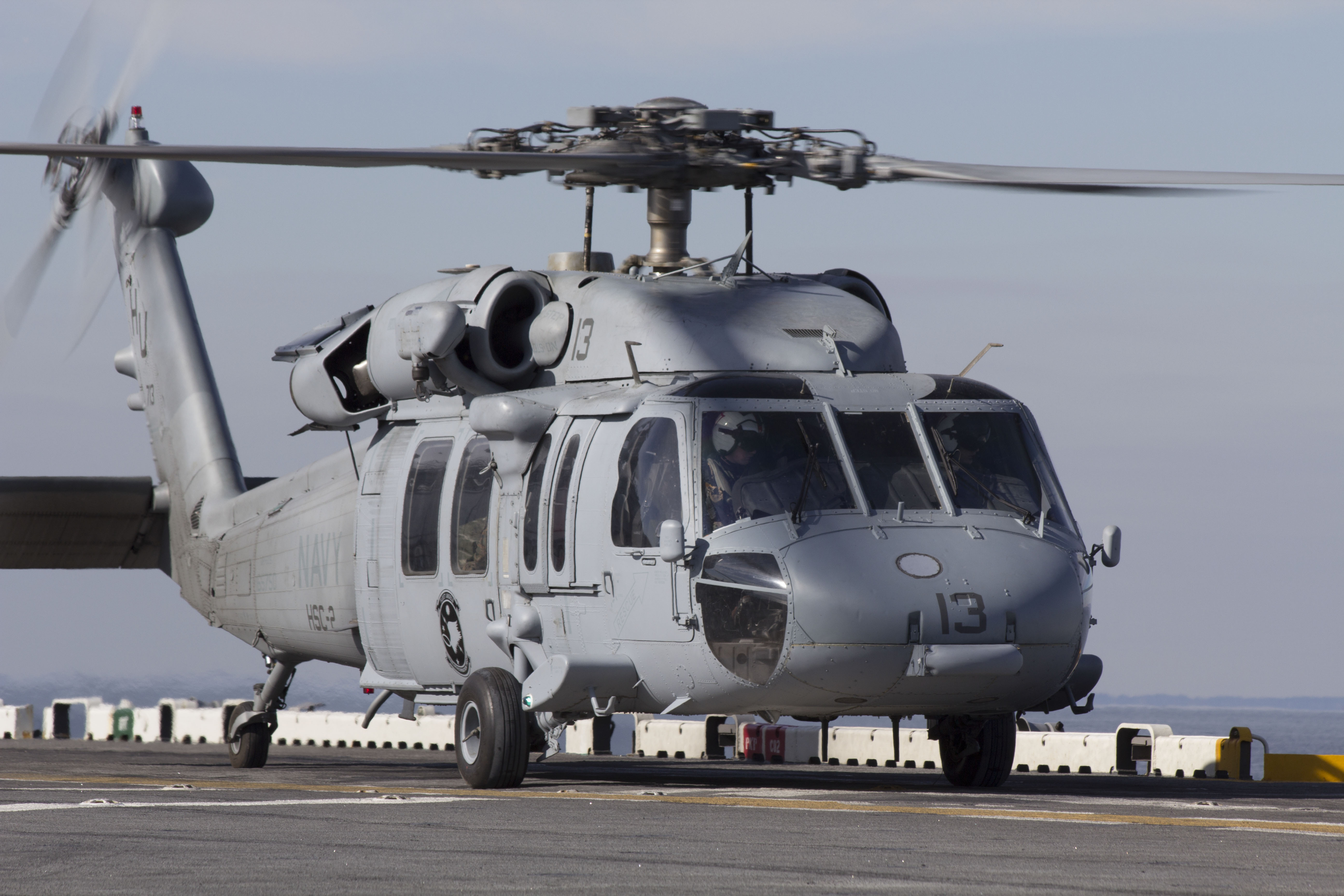 An MH-60S Seahawk sits on the flight deck of the USS Wasp (LHD 1) to transport Marines assigned to Landing Support Platoon, Combat Logistics Battalion (CLB), 26th Marine Expeditionary Unit (MEU), Nov. 6, 2012. The platoon was transported to Queens, N.Y., to assist LaGuardia Airport in moving a generator to a damaged pier. The 26th MEU and the USS Wasp are off the coast of New York in support of Hurricane Sandy disaster relief efforts in New York and New Jersey. The 26th MEU is capable of providing generators, fuel, clean water, and helicopter lift capabilities to aid in disaster relief efforts. The 26th MEU is currently in pre-deployment training, preparing for their departure in 2013. As an expeditionary crisis response force operating from the sea the MEU is a Marine Air-Ground Task Force capable of conducting amphibious operations, crisis response, and limited contingency operations. (U.S. Marine Corps motion media by Lance Cpl Juanenrique Owings/Released)